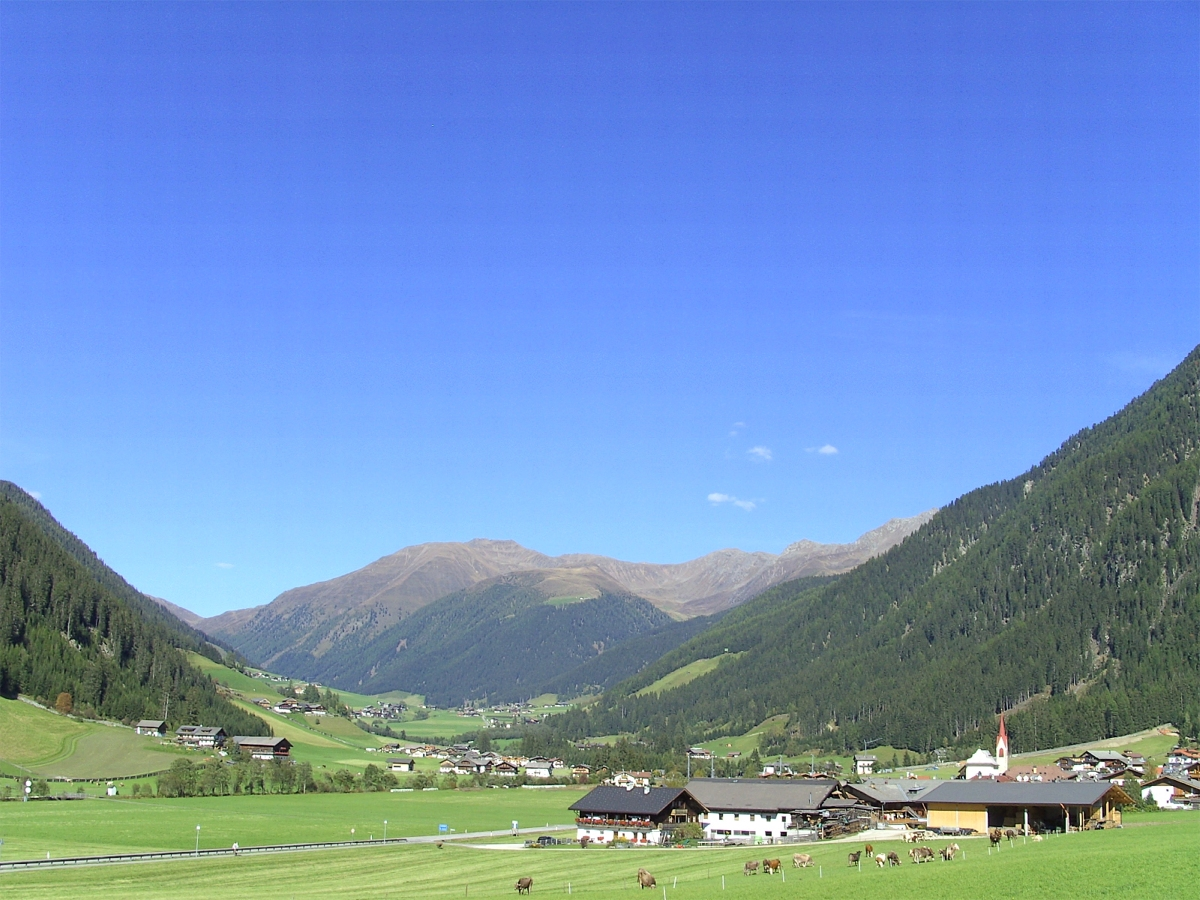 The valley in which Gsies lies.